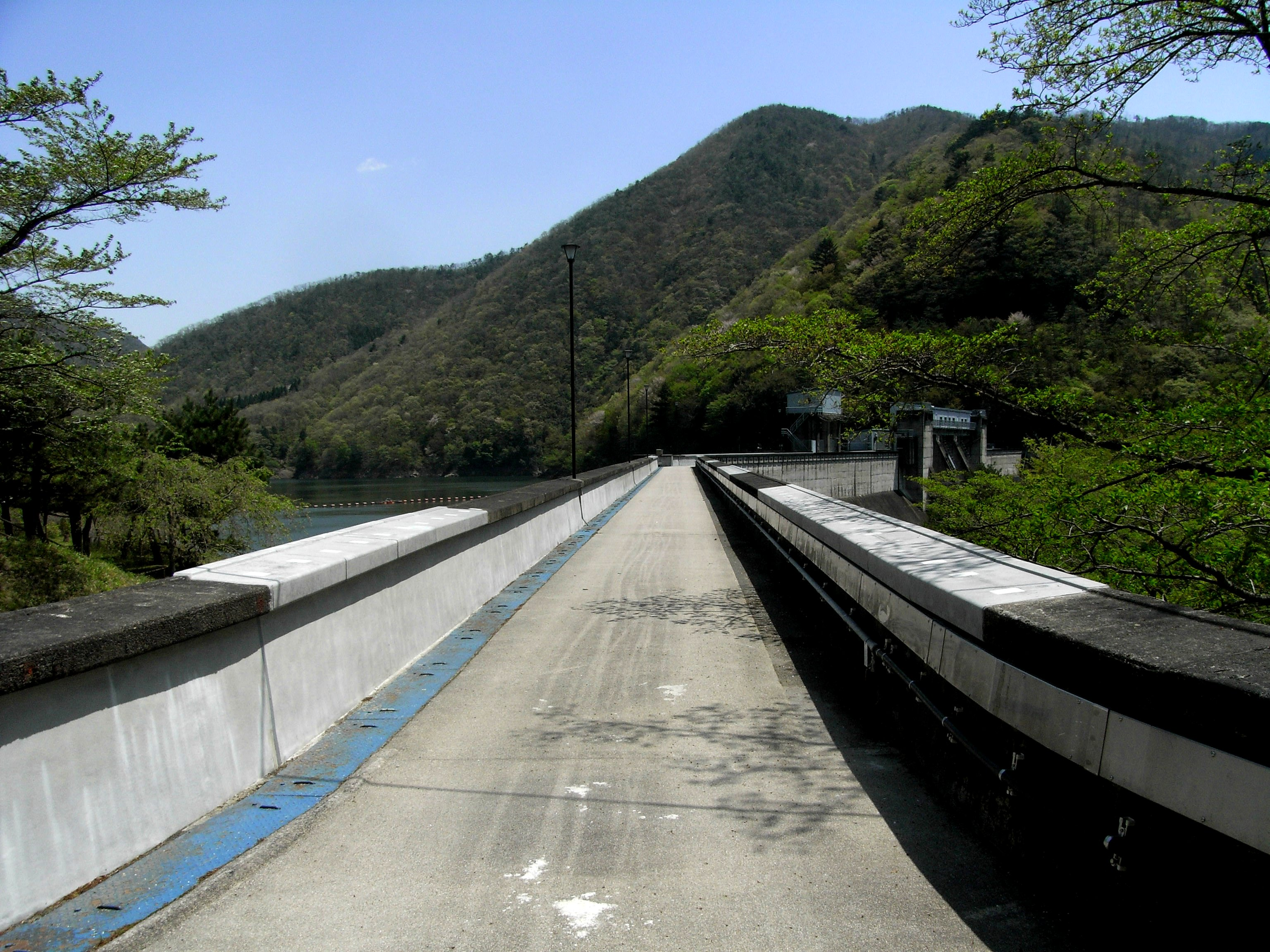 Ohno Dam right side